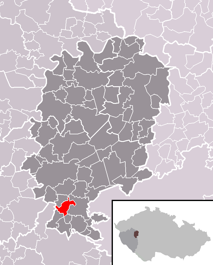 Location of Nevid municipality within Rokycany District and within identical administrative area of Rokycany as a Municipality with Extended Competence.